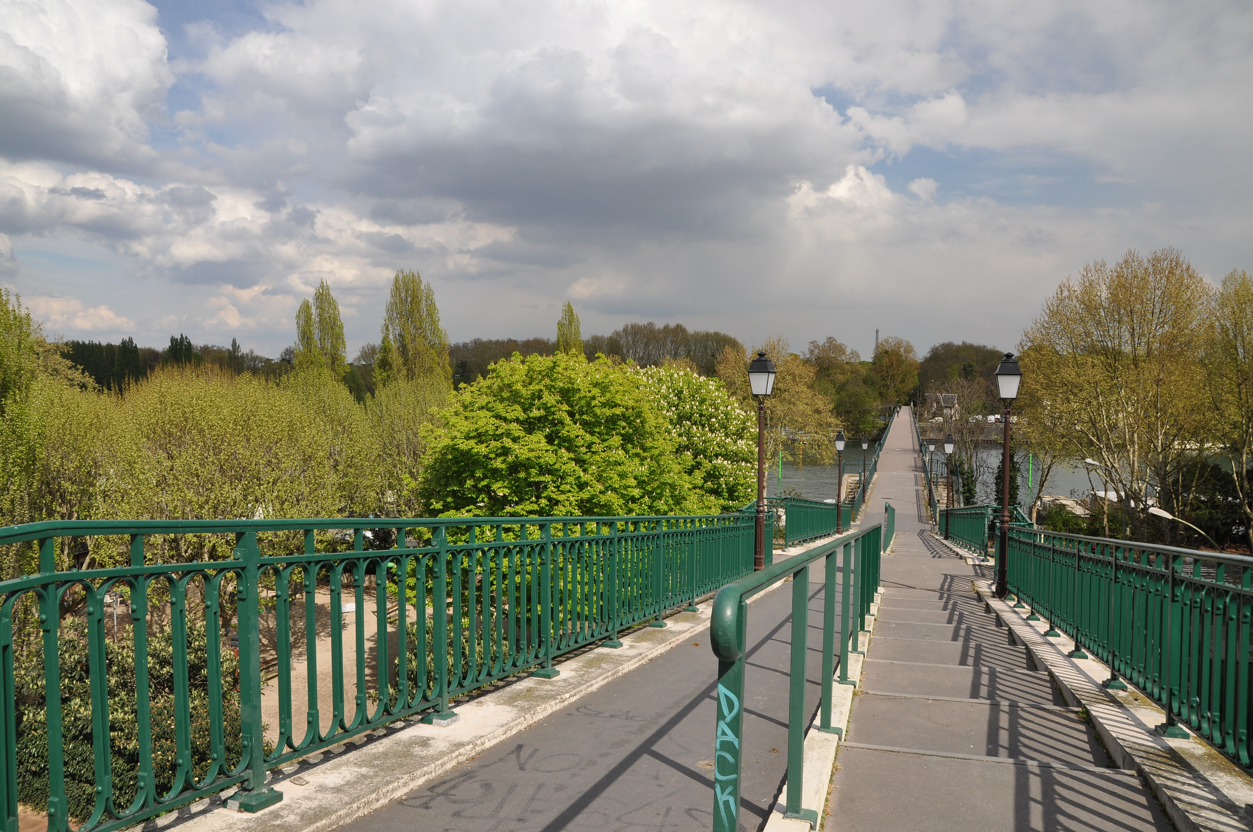 The footbrigde of Avre through the Seine River in Saint-Cloud, Hauts-de-Seine department in France. The work of engineering realized according to the plans of Gustave Eiffel is a part of the Aqueduc of Avre, built to forward waters towards Paris city.